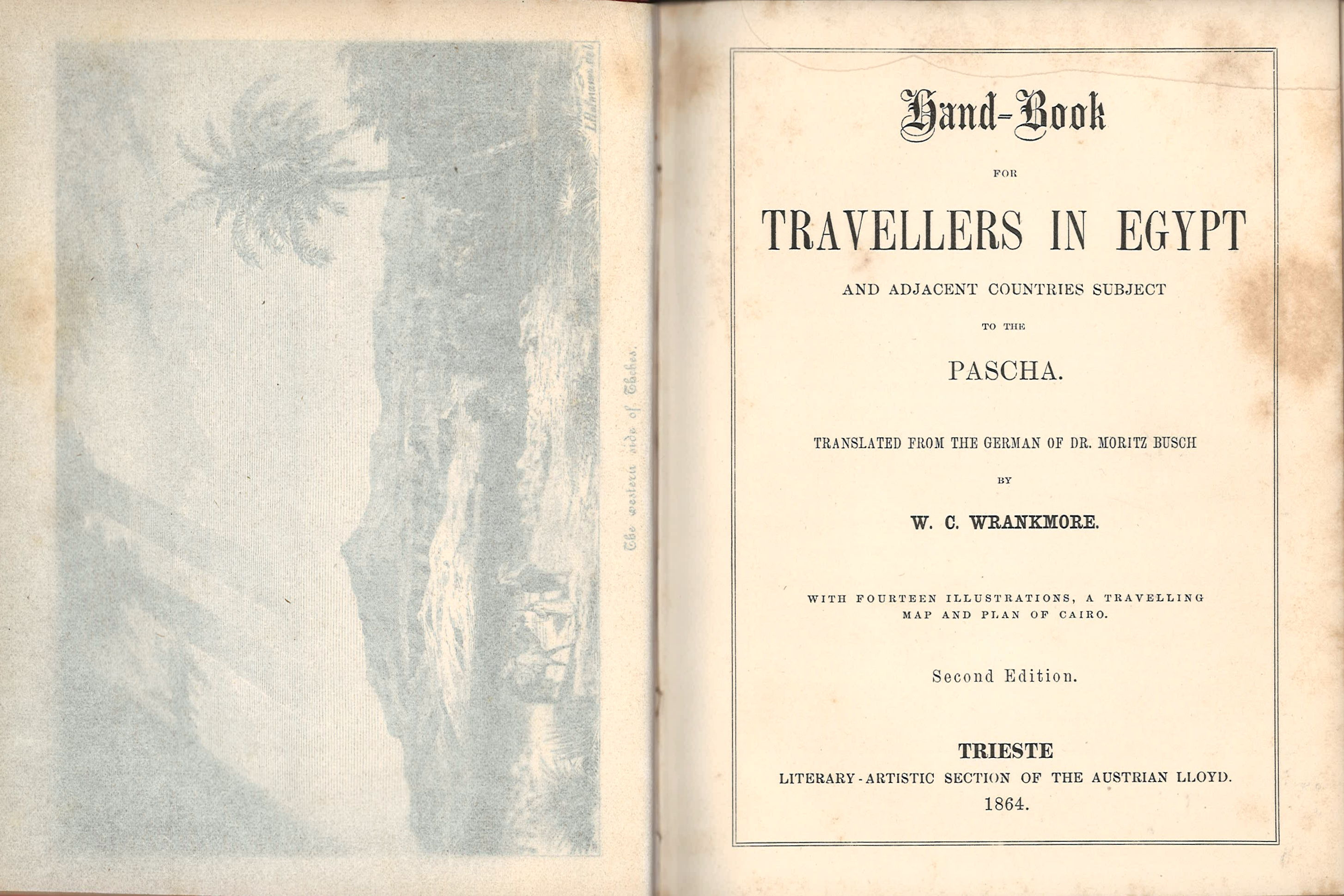 Title page and book frontispiece of the travel guide "Egypt" by Moritz Busch / W.C. Wrankmore, 2nd edition, 1864, of the Austrian Lloyd Triest